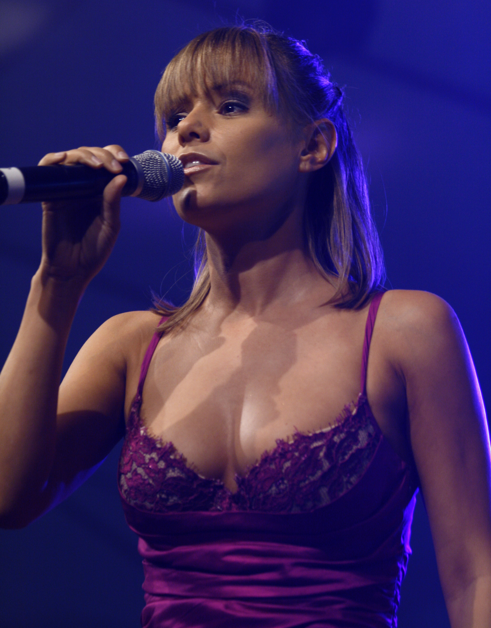 Swiss singer Francine Jordi (concert in Vienna).